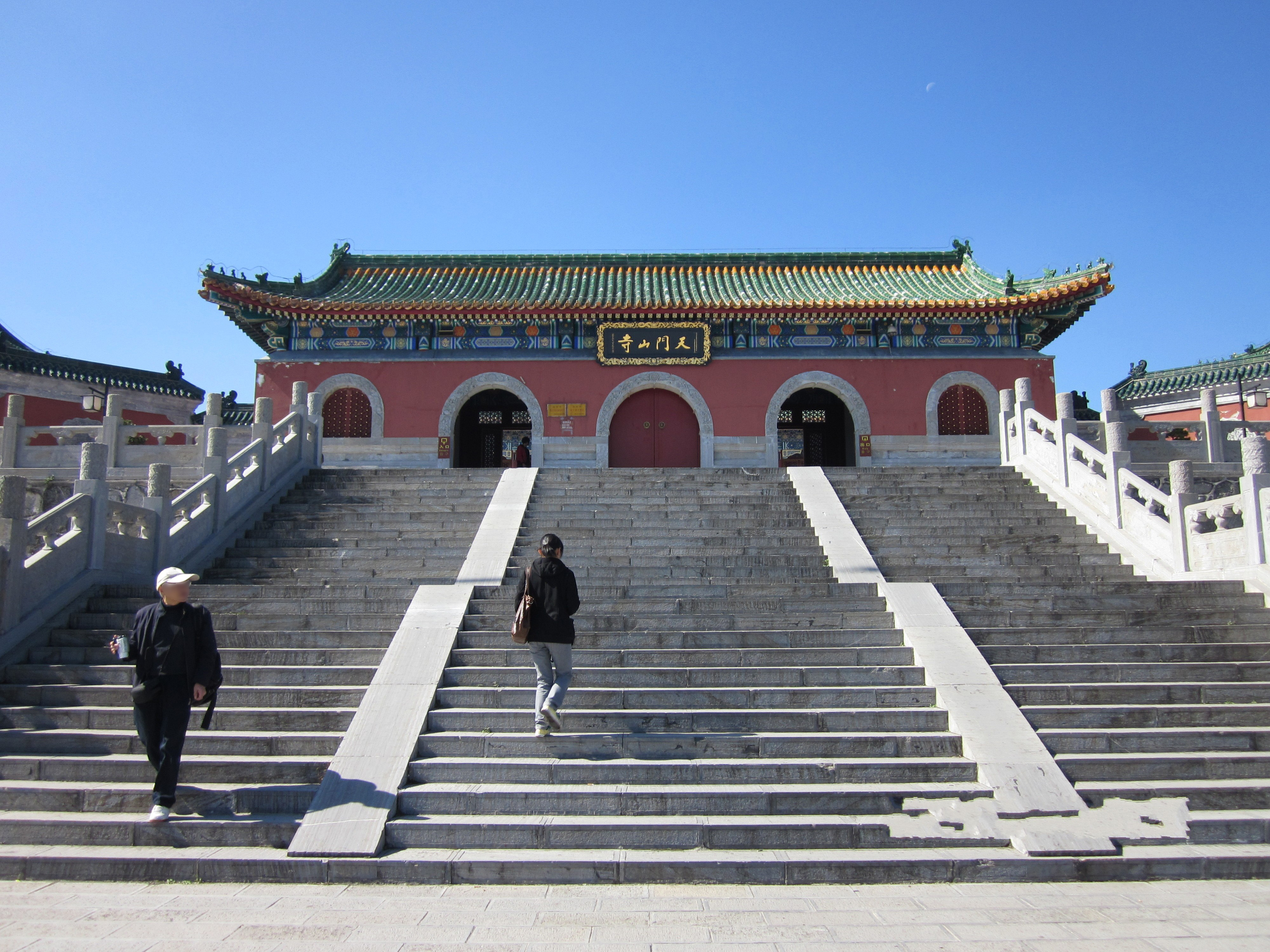 The shanmen at Tianmenshan Temple, in Zhangjiajie, Huna, China